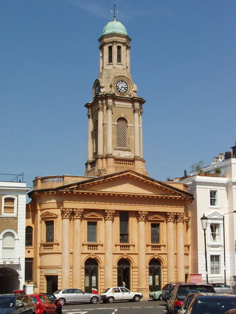 St Peter's parish church, Kensington Park Road, Notting Hill, London W11, seen from the west from Stanley Gardens